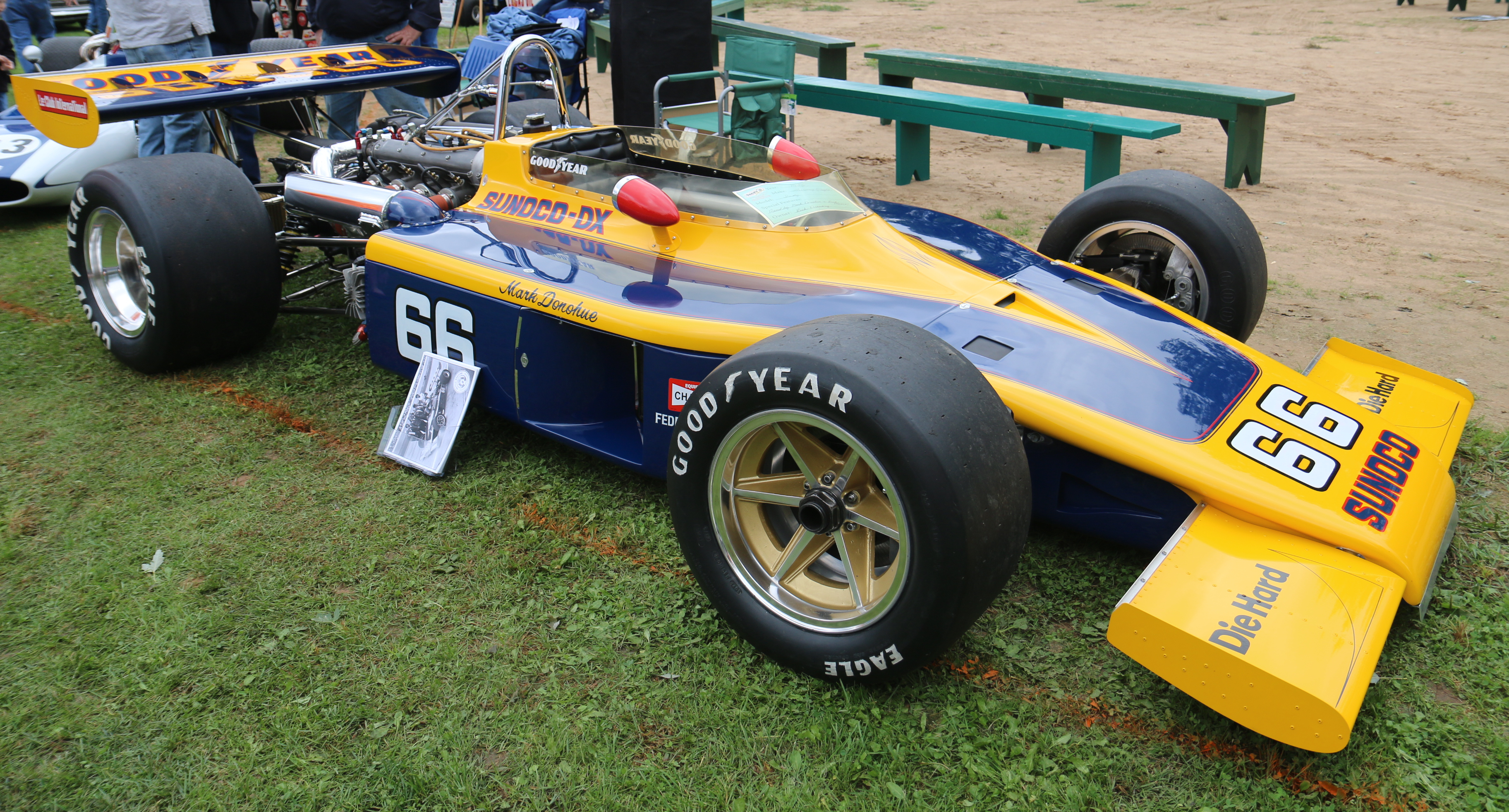 a 1972 Mark Donohue Gurney Eagle Indycar on display at the Freedom Area Historical Society exhibit “The Evolution of the Race Car”